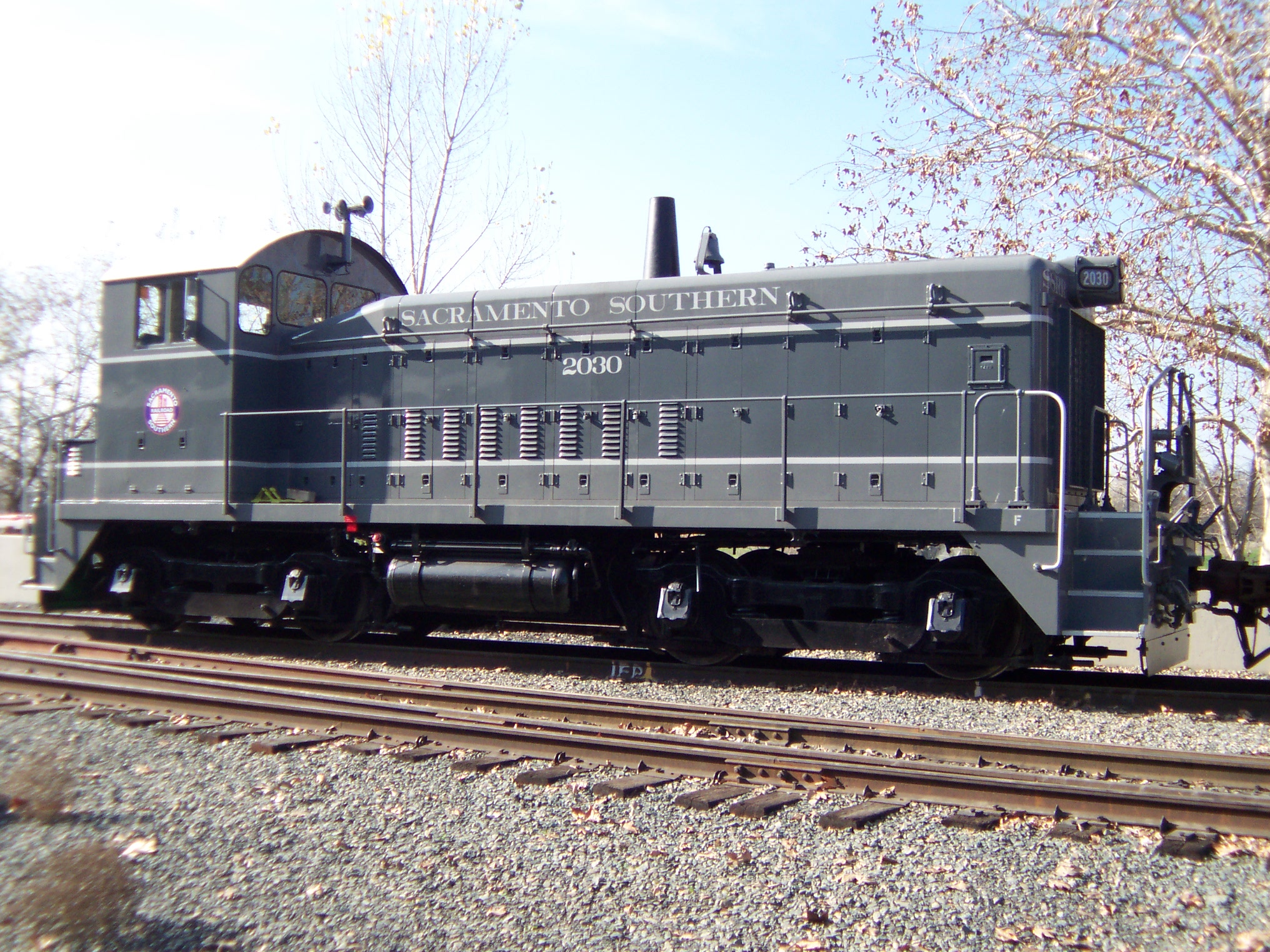 Sacramento Southern Railroad locomotive No. 2030 passes the California State Railroad Museum.